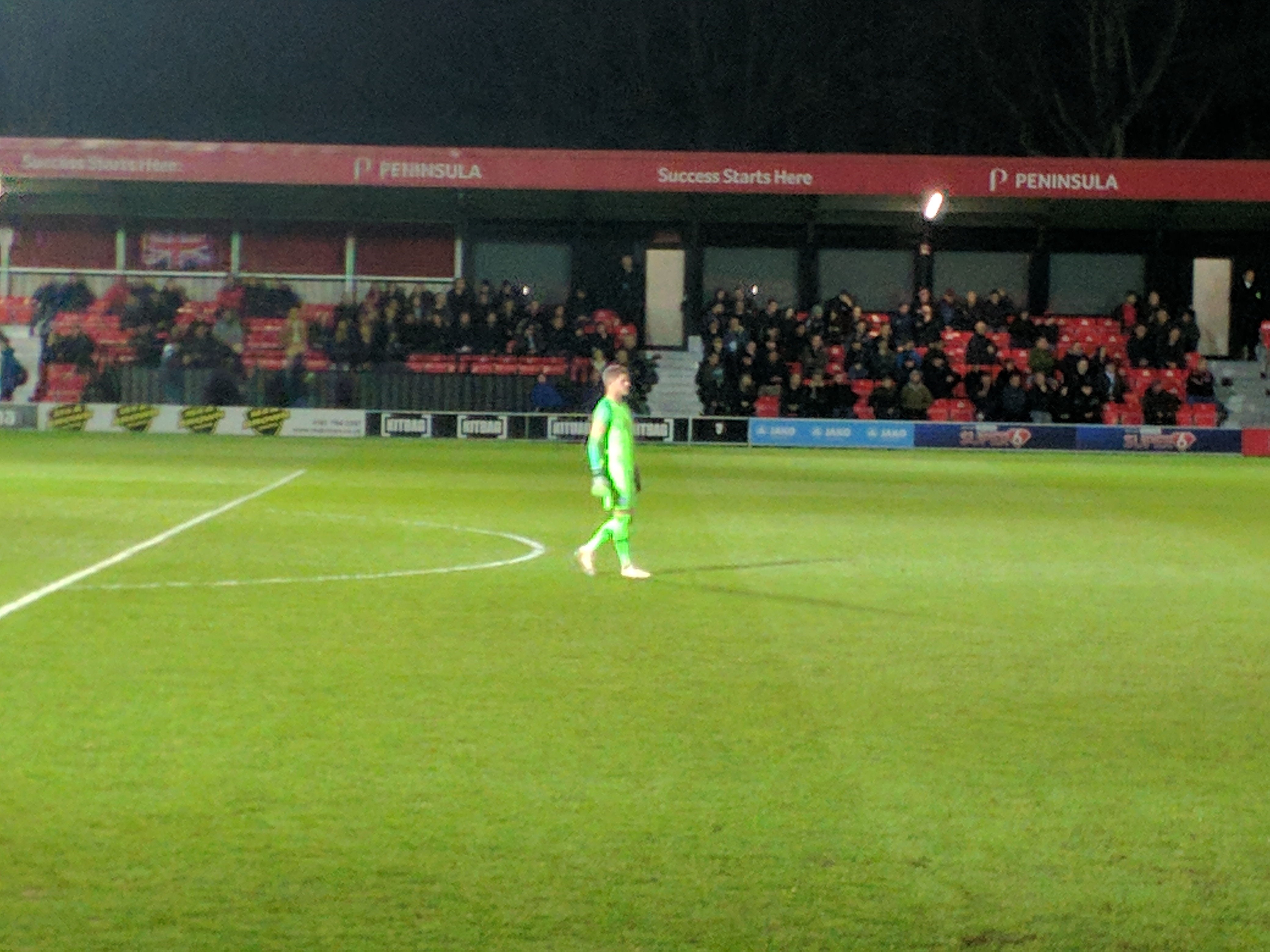 Ben Killip in England C action